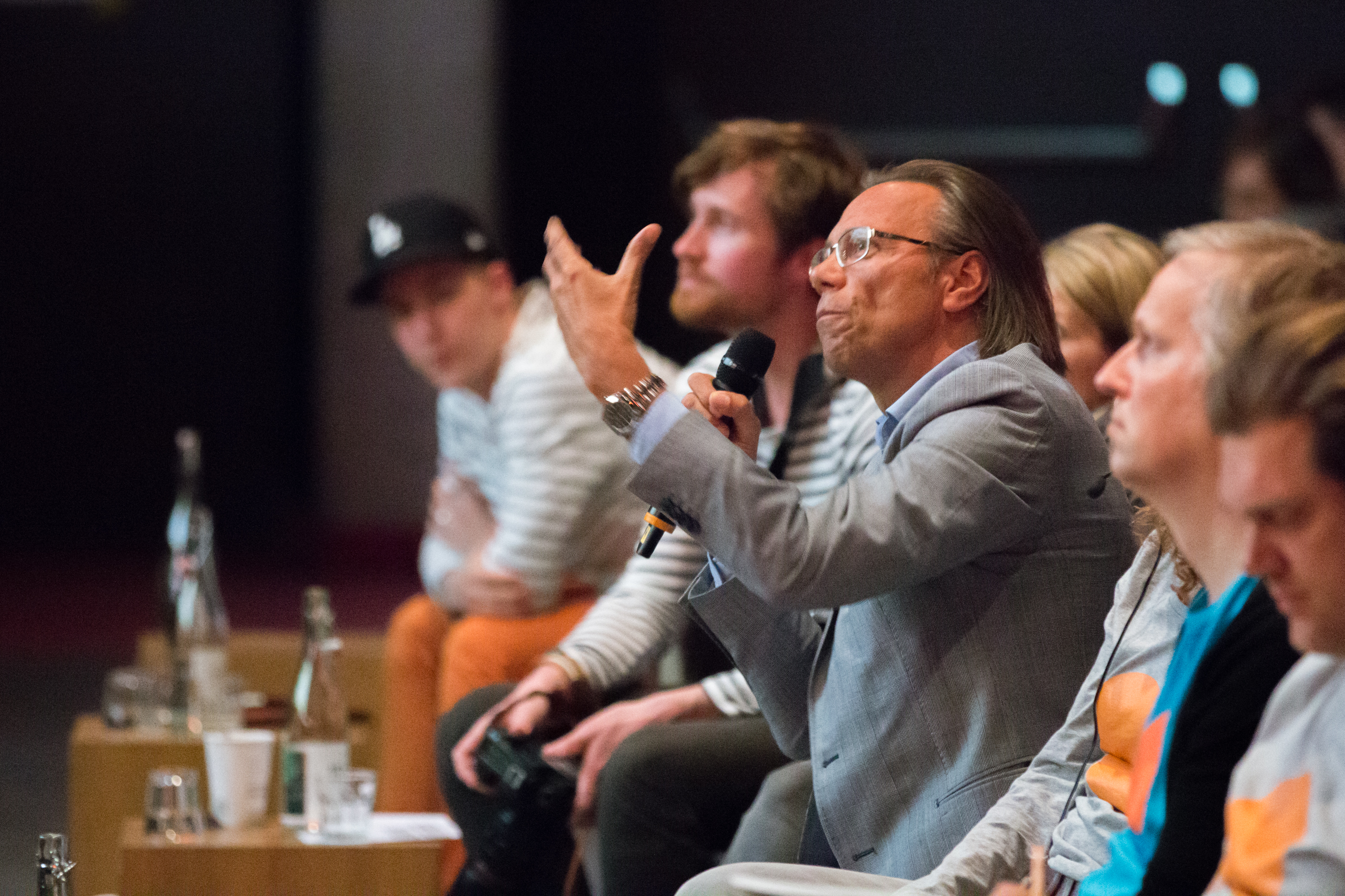 Harald Welzer at the See-Conference 2015 in the Schlachthof Wiesbaden